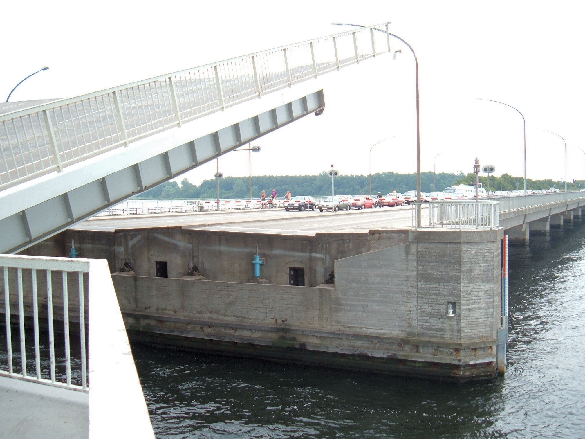 Frederick IX bridge at Nykobing Falster between the islands of Falster and Lolland in south Denmark. View of bascules closing. Taken by contributor, July 2006.